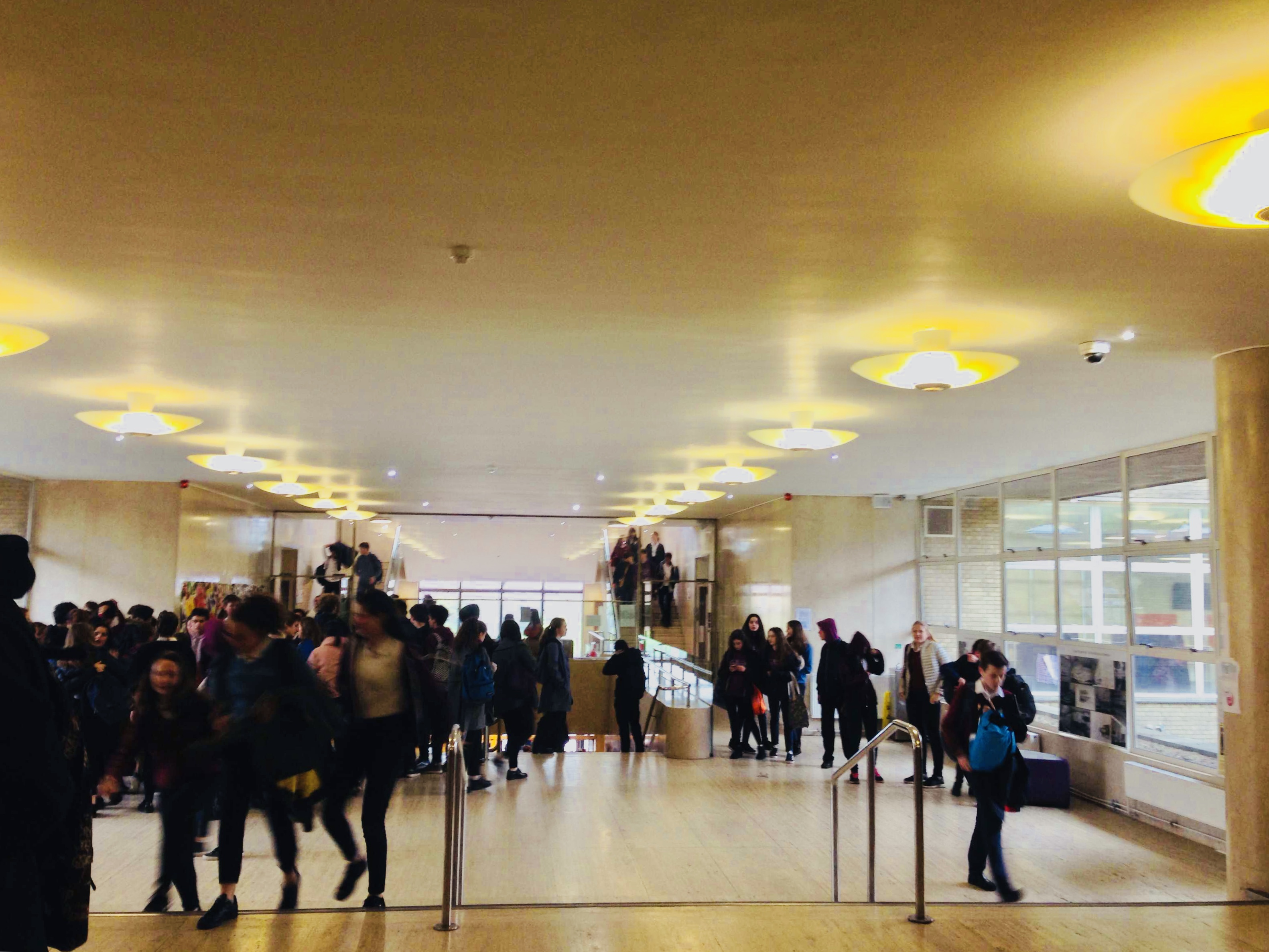 This is the entrance of the school